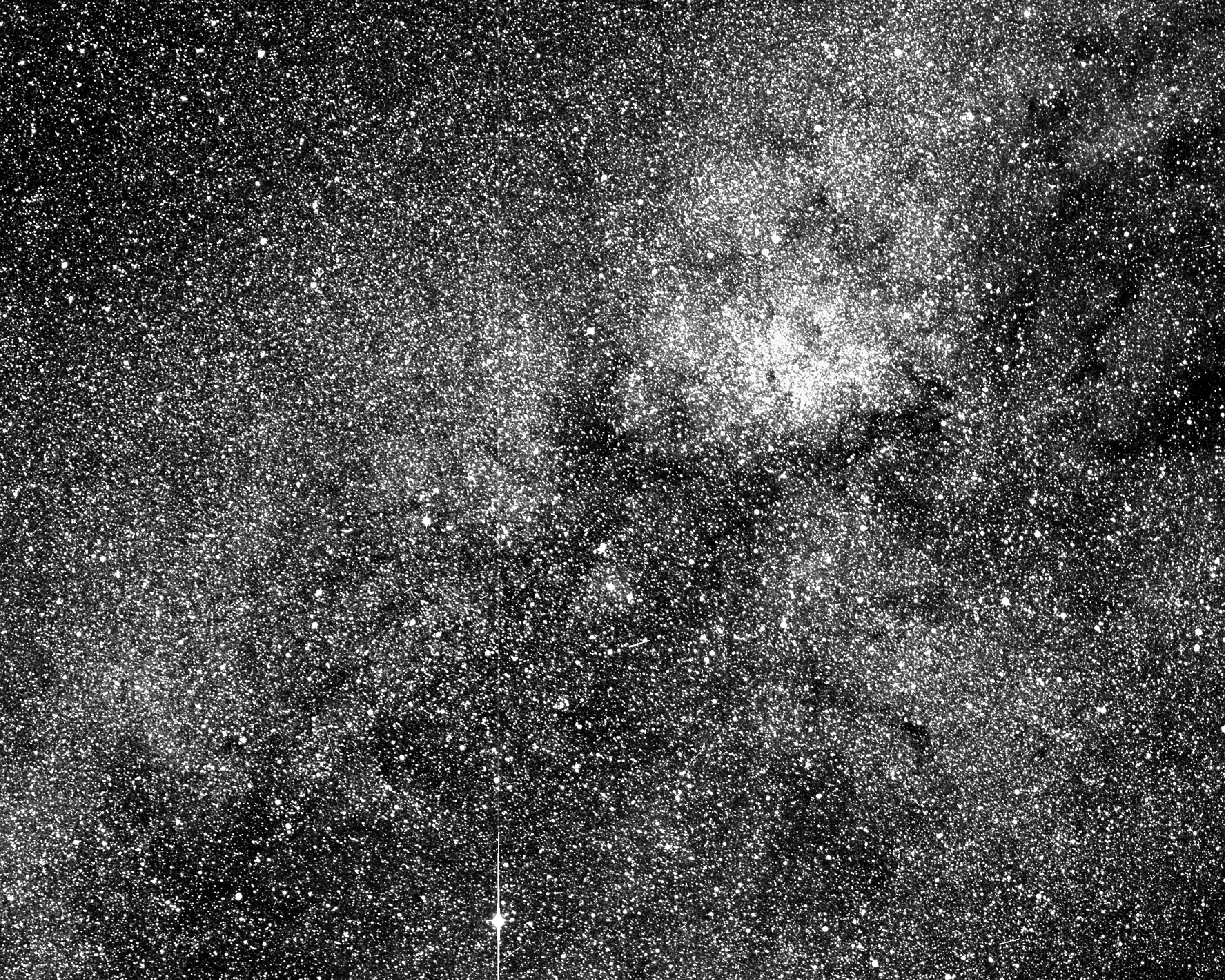 This test image from one of the four cameras aboard the Transiting Exoplanet Survey Satellite (TESS) captures a swath of the southern sky along the plane of our galaxy. TESS is expected to cover more than 400 times the amount of sky shown in this image when using all four of its cameras during science operations. As part of camera commissioning, the science team snapped a two-second test exposure using one of the four TESS cameras. The image, centered on the southern constellation Centaurus, reveals more than 200,000 stars. The edge of the Coalsack Nebula is in the right upper corner and the bright star Beta Centauri is visible at the lower left edge. TESS is expected to cover more than 400 times as much sky as shown in this image with its four cameras during its initial two-year search for exoplanets. A science-quality image, also referred to as a “first light” image, is expected to be released in June.